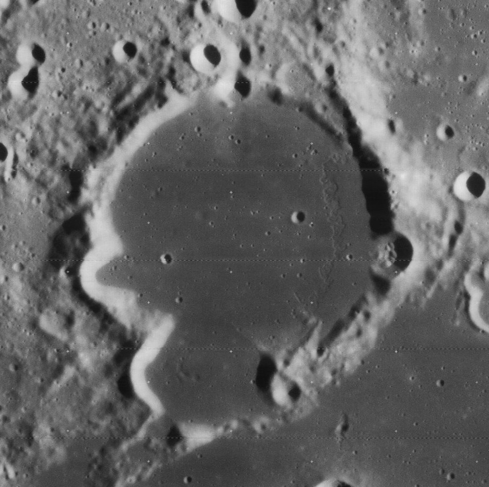 Ulugh Beigh A crater, northeast of Ulugh Beigh, on the moon.